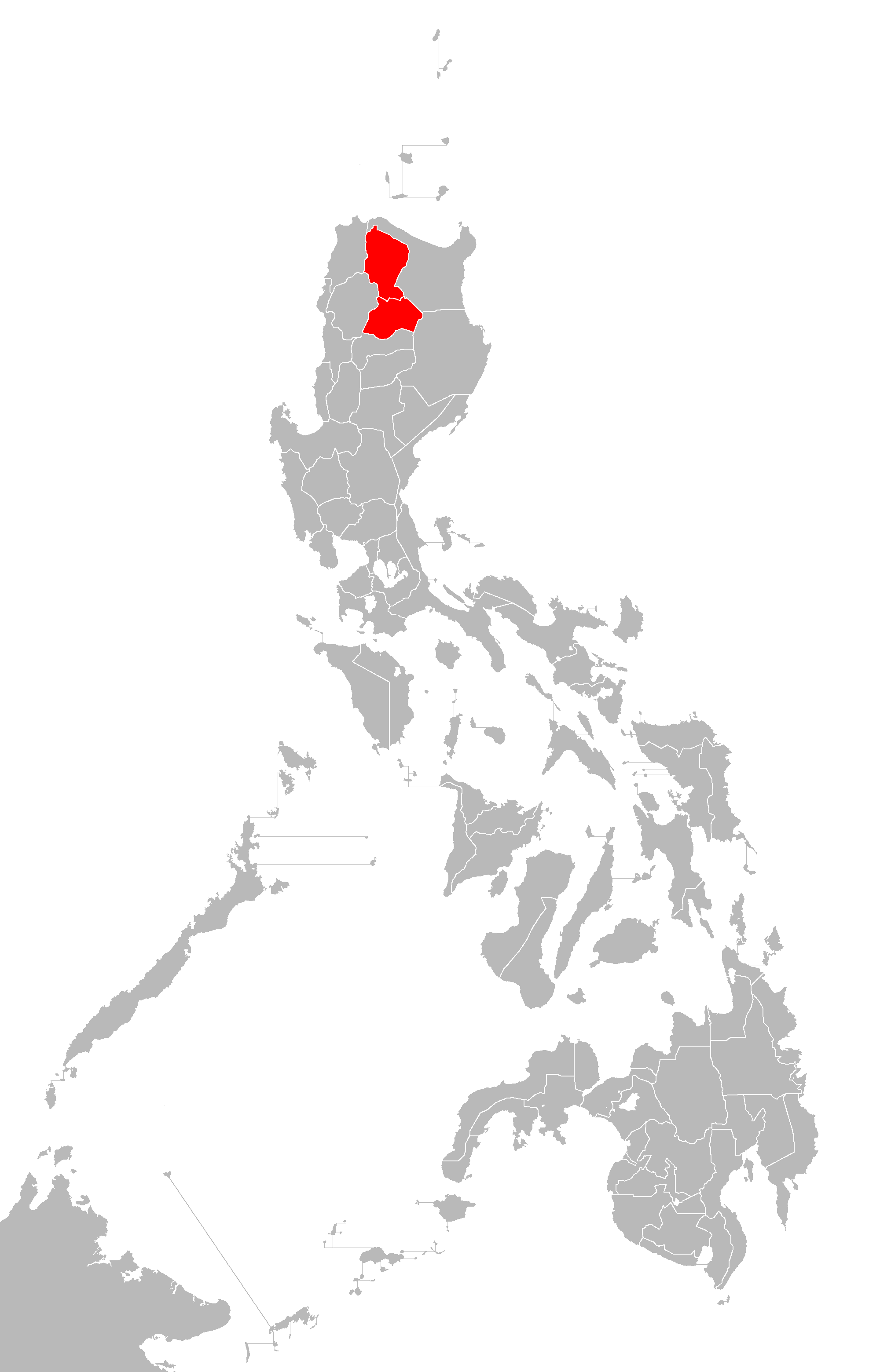 Map of the Philippines showing the location of the historical province of Kalinga-Apayao. Modern provincial boundaries in white.